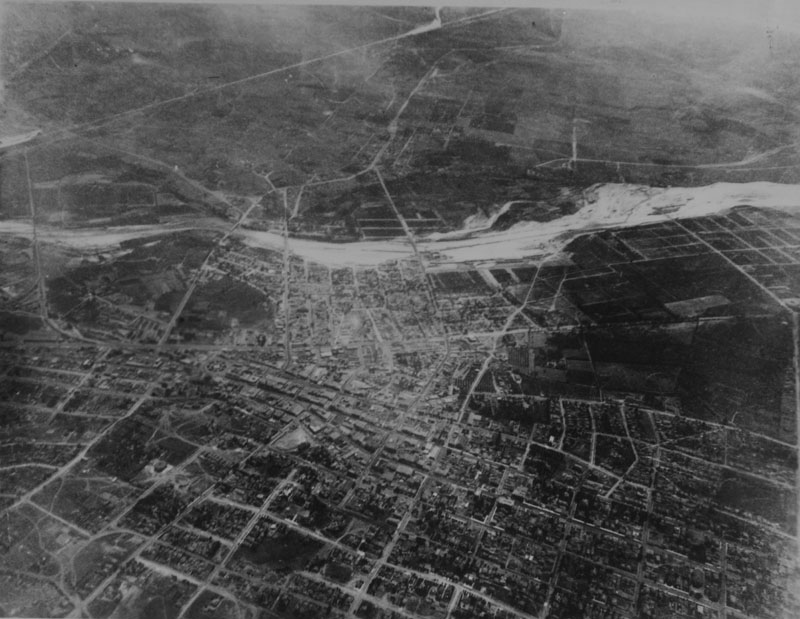 This is an aerial photo of Los Angeles, taken from a balloon on June 27, 1887. The town's population was a little over 20,000 at this time. North is to the left. The circular form of the Plaza is visible to the center left. The then-unpredictable Los Angeles River crosses.